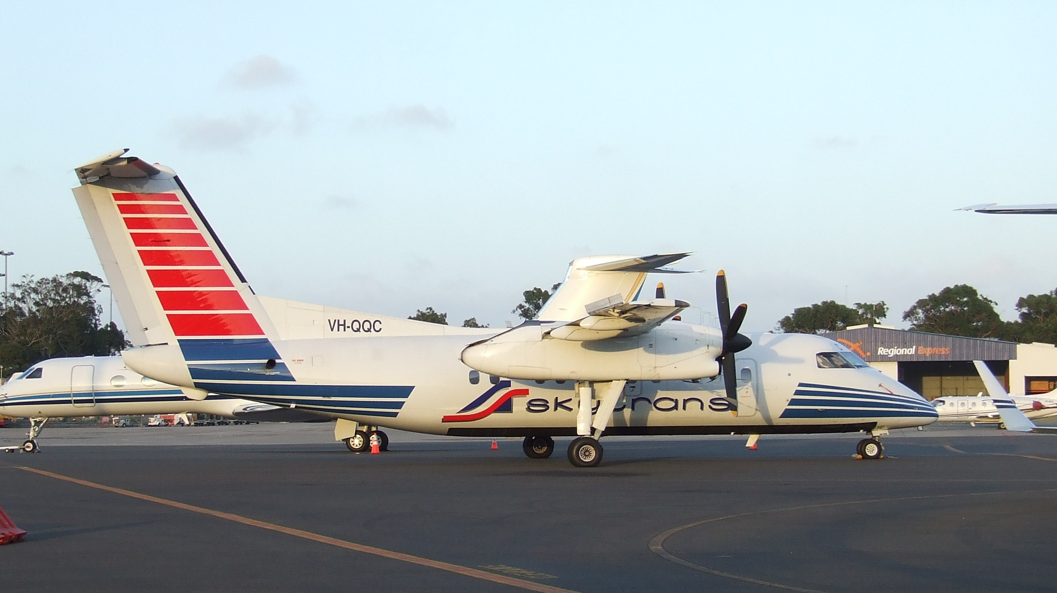 Skytrans Airlines de Havilland Canada Dash 8 VH-QQC. Sydney International Airport.